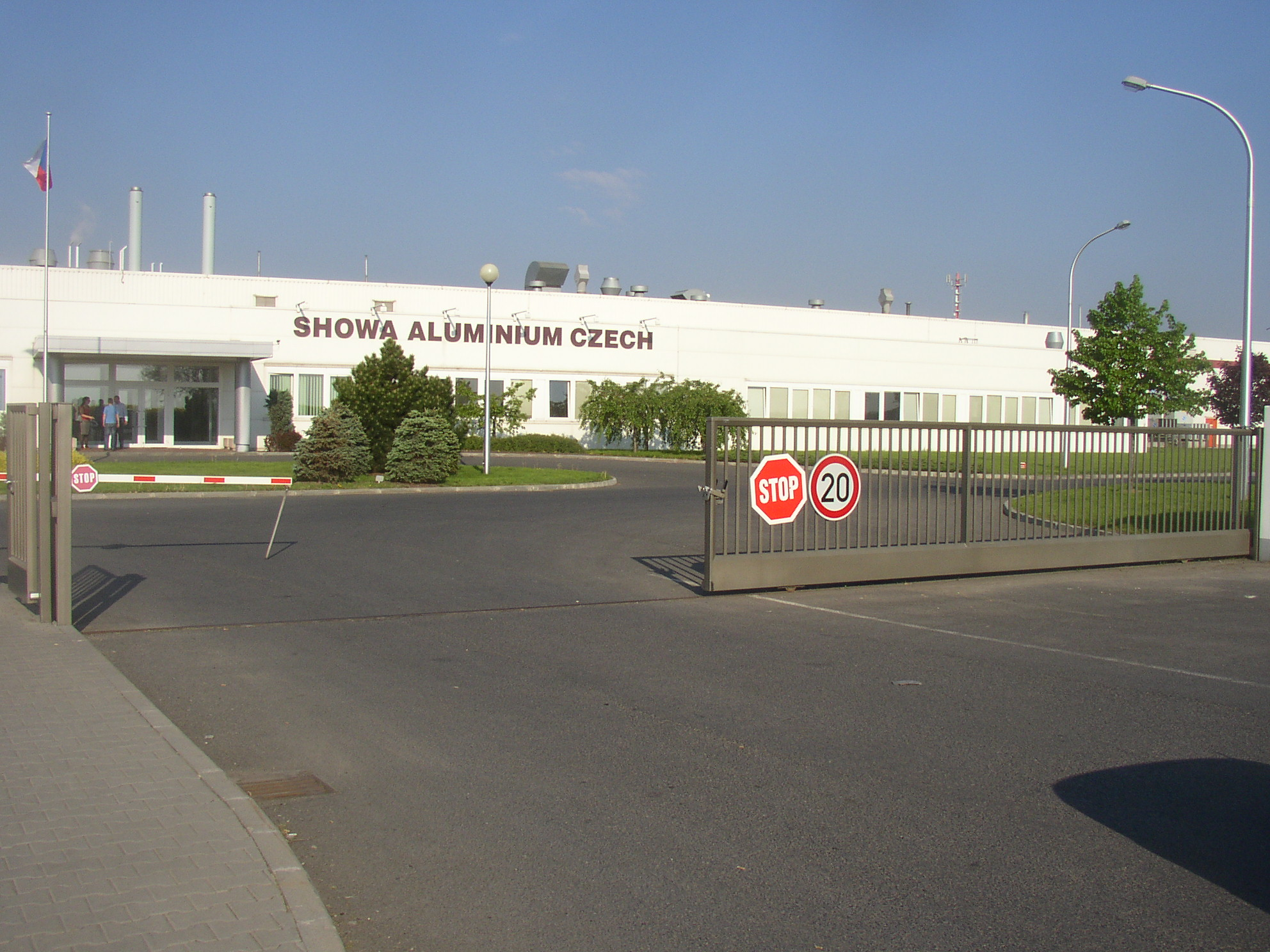 Factory of car A/C condensers manufacturer Showa Aluminium Czech (a subsidiary of Japanese Showa Denko) company, Kladno, Czech Republic. Main entrance as seen from the east.